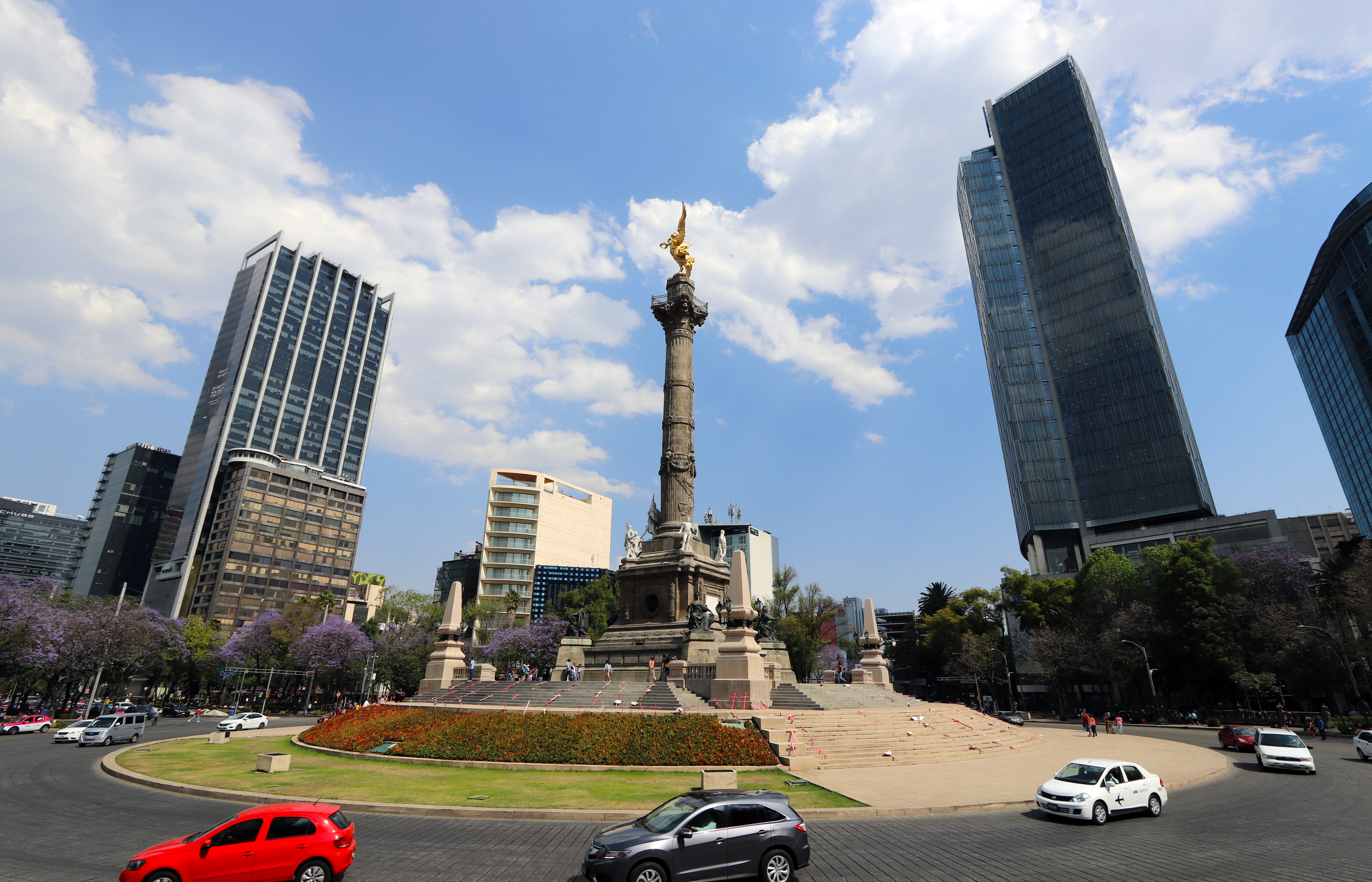 Photo of the Independence Monumento, also known as "The Independence Angel" or just "The Angel", located at the roundabout between Paseo de la Reforma, Rio Tiber and Florence Streets.